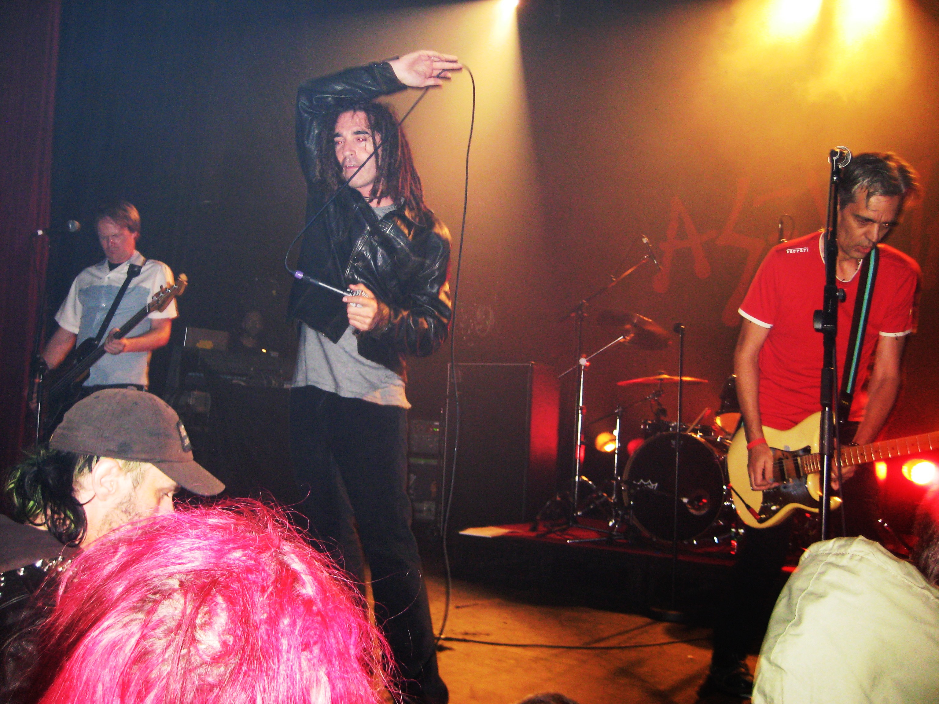 The Asexuals playing in Montreal october 2010